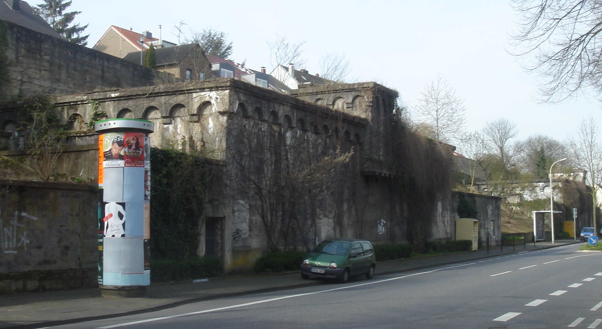 Bunker at the side of the hill Dransdorfer Berg in Bonn-Dransdorf.